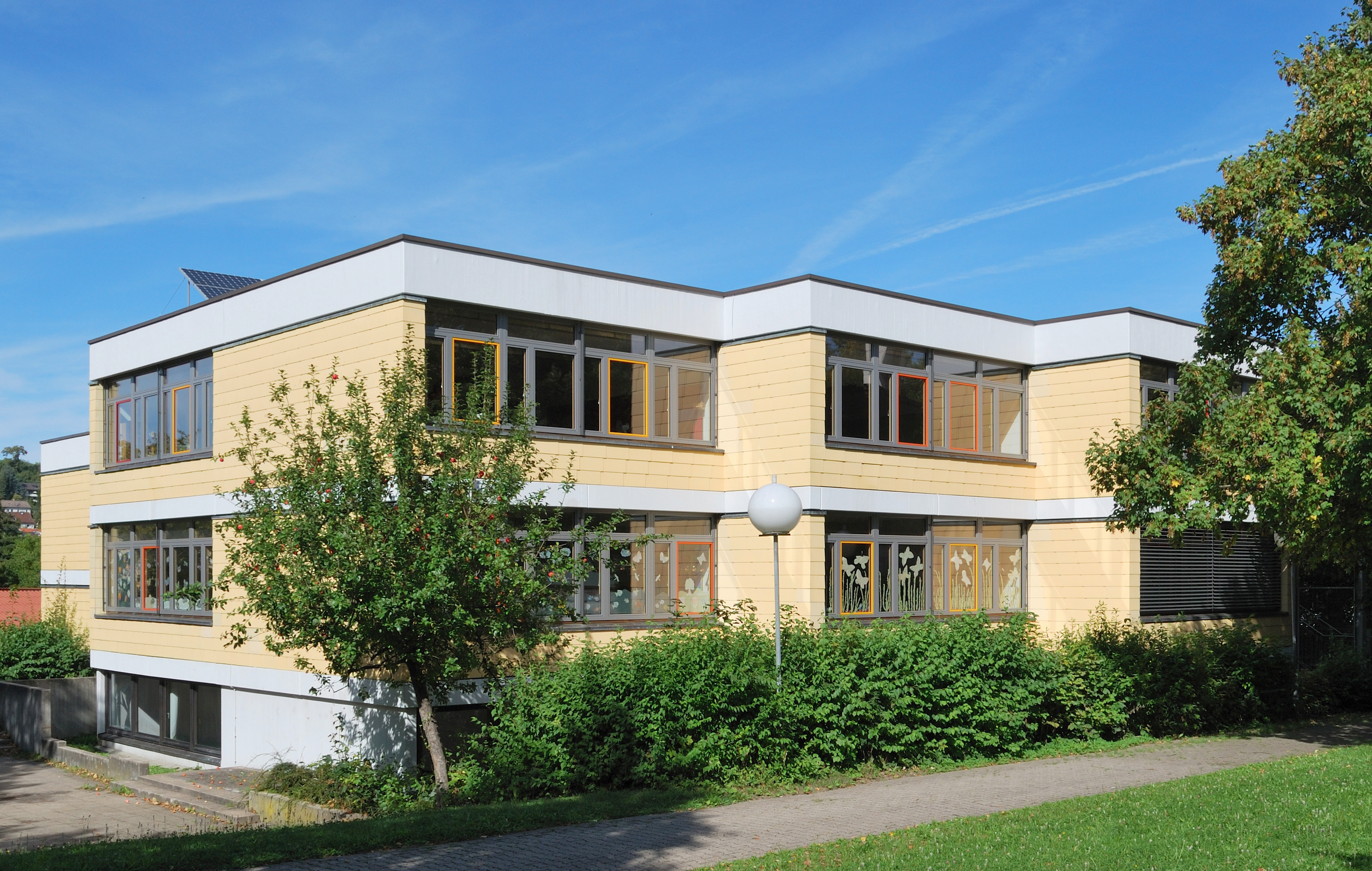 Johannes-Kullen-School for children with behavioral problems in Korntal in the German Federal State Baden-Württemberg.